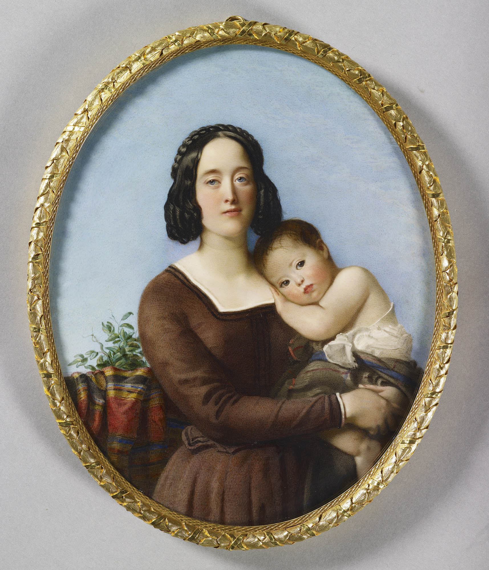 Watercolour of Charlotte Montagu Douglas Scott, Duchess of Buccleuch (1811-1895) and her daughter Lady Victoria Scott (1844-1938)